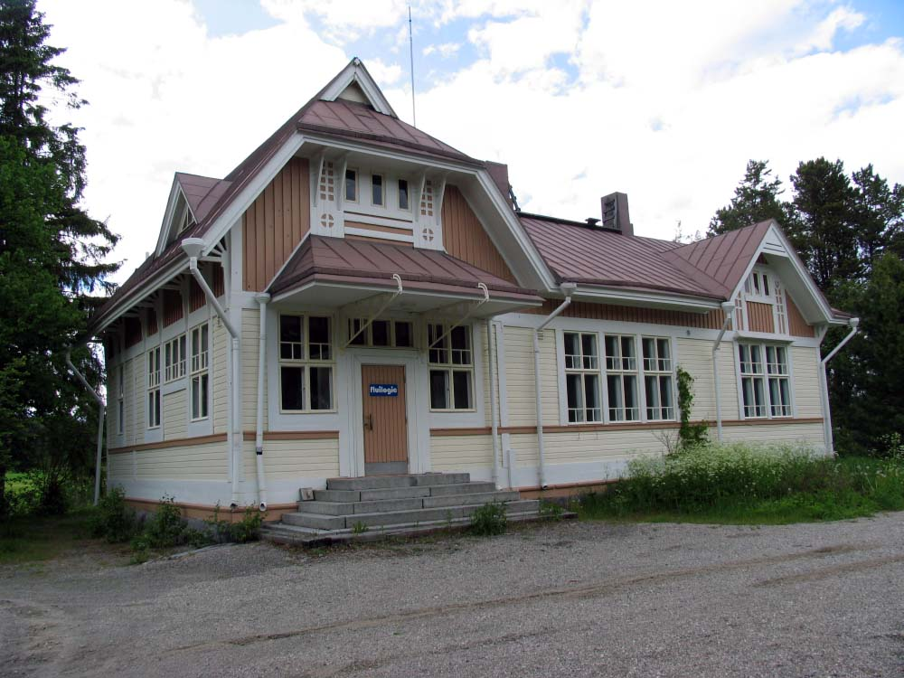 Vuonislahti railaway station in Lieksa, Finland